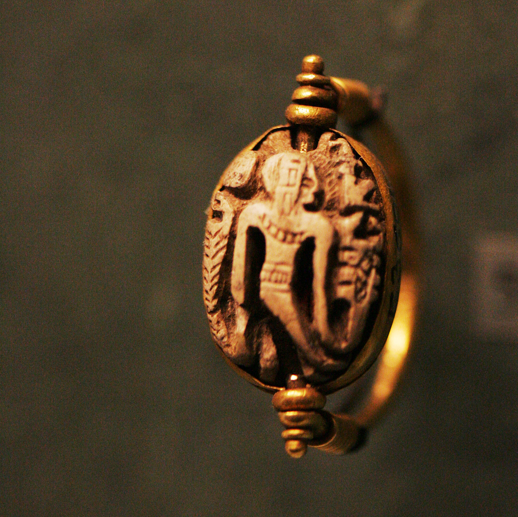 Seal ring featuring a child holding a scorpio